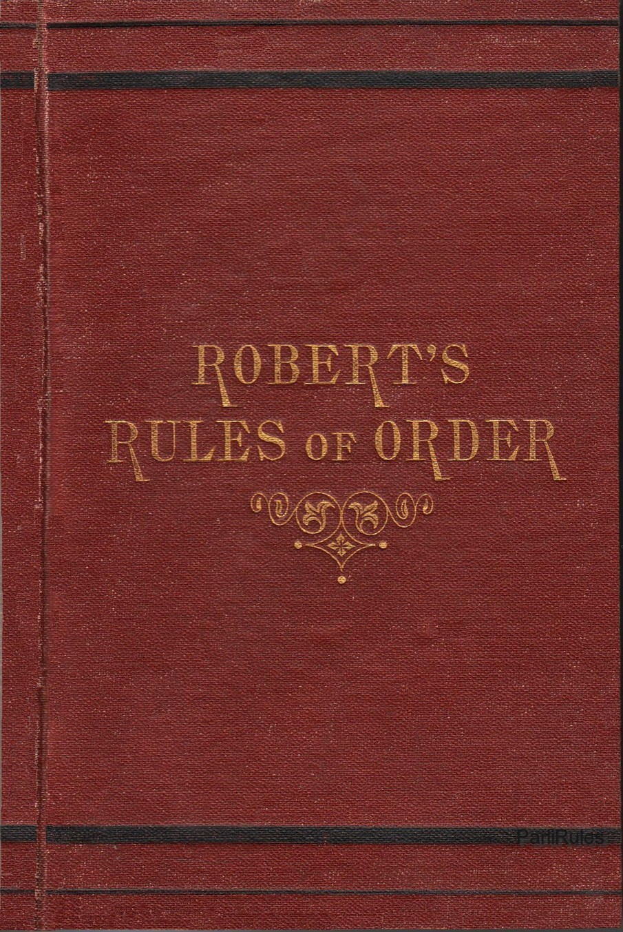 Robert's Rules of Order book cover